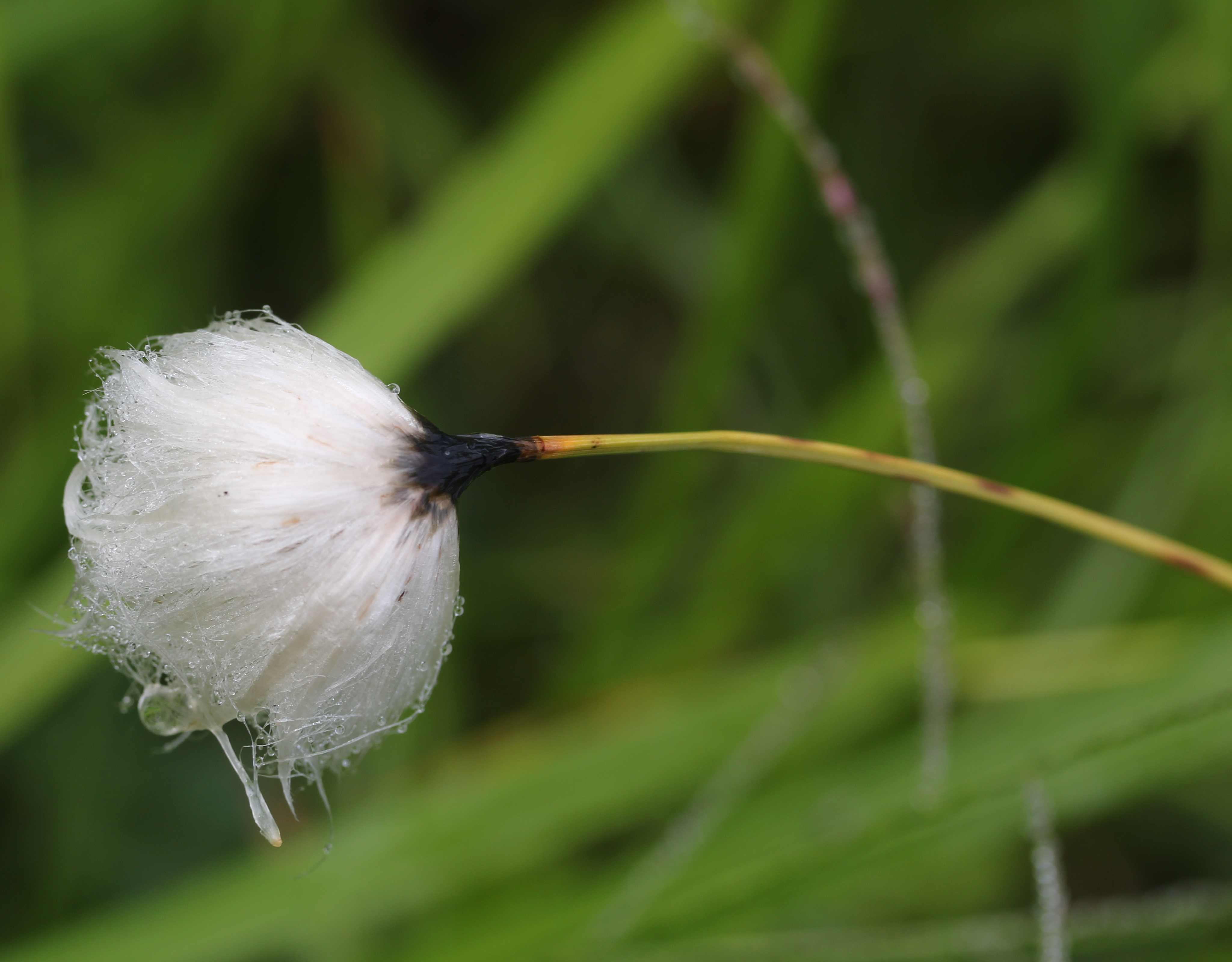 Eriophorum vaginatum in Mount Teraji, Tateyama Mountains of Hida Mountains, Hida, Gifu prefecture, Japan.